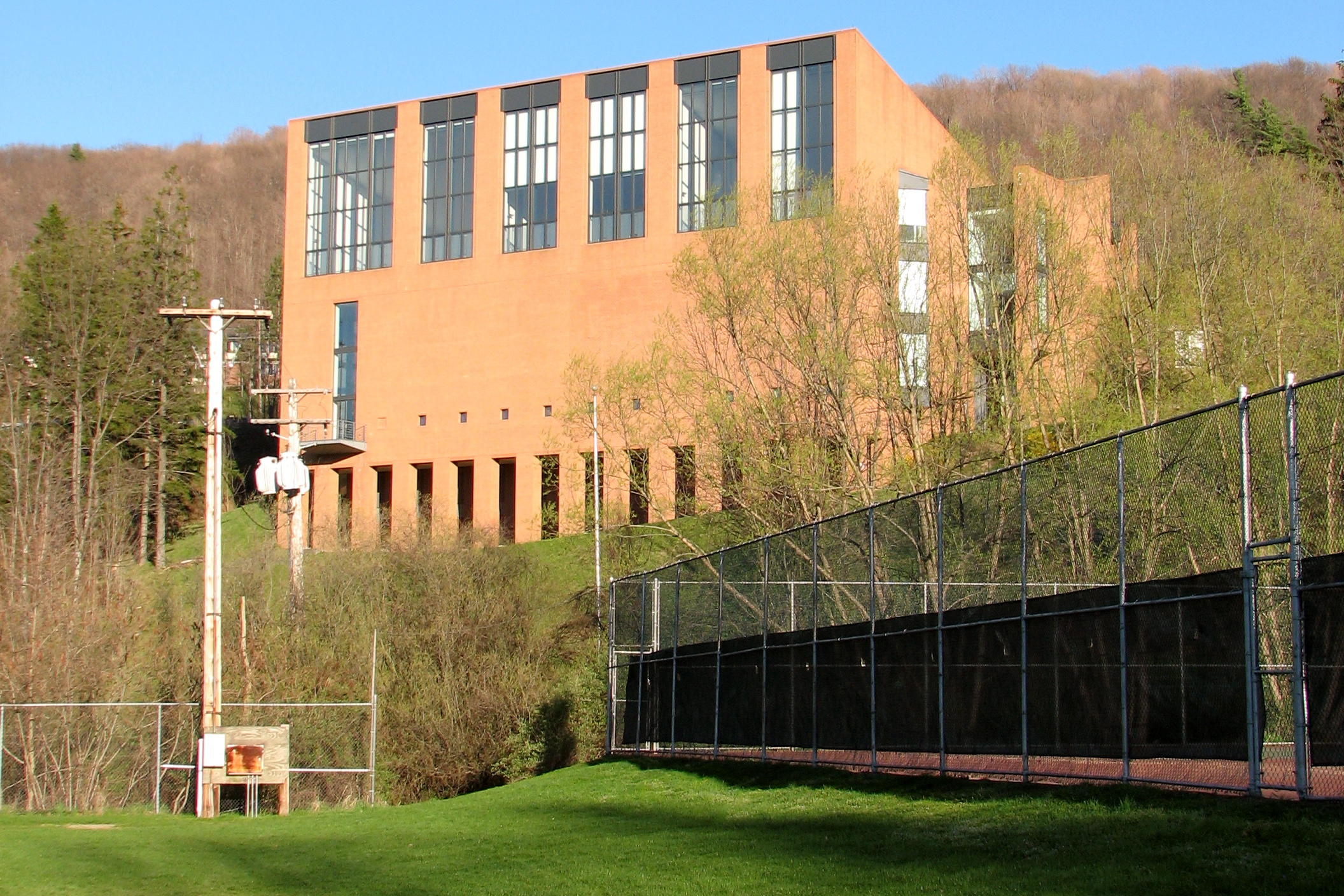 The Miller Performing Arts Center and a tennis court at Alfred University in Alfred, New York.